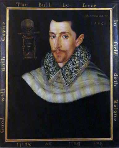 John Bull (1562 – 1628). Text in upper right corner reads: ANo ATATIS SVAE 27 1589.